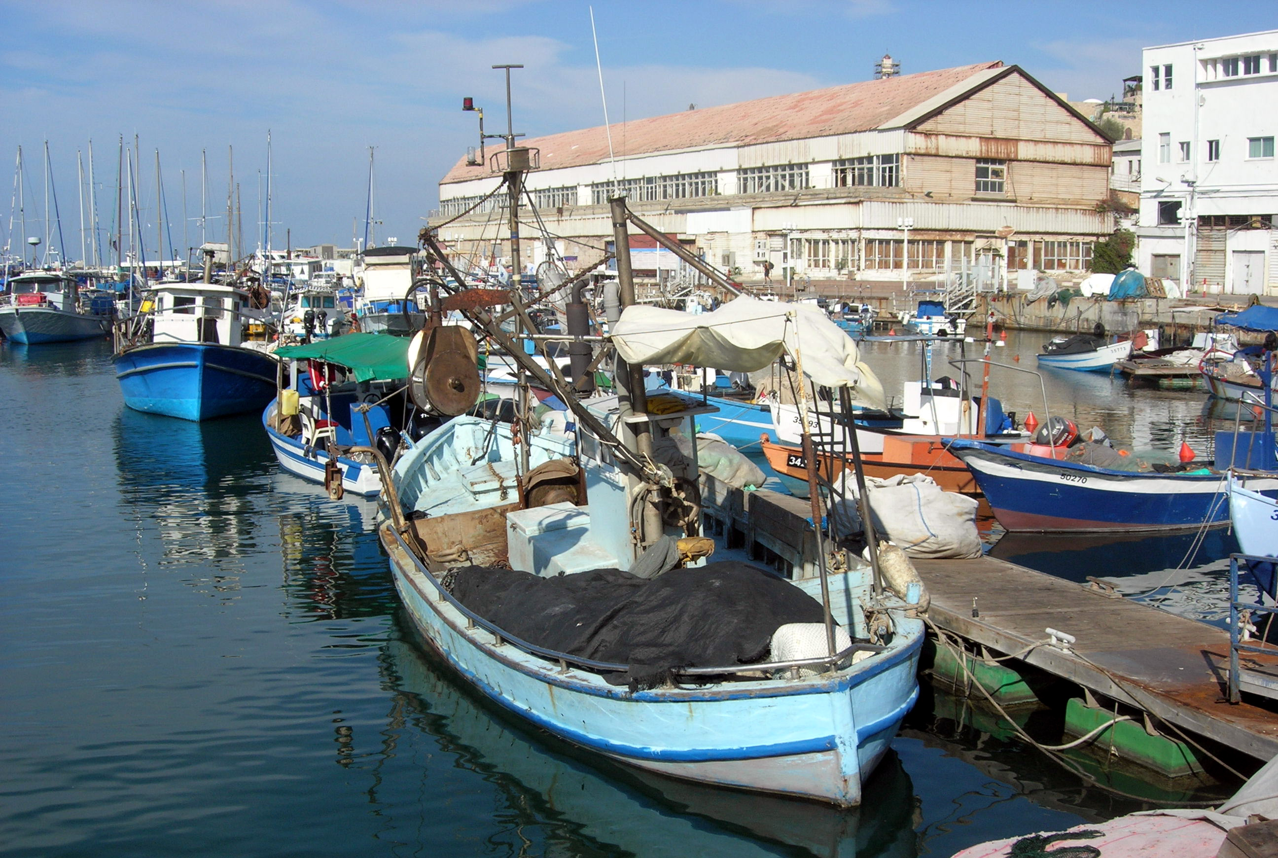 Description =Port de Jaffa Source =Photo taken by Remi Jouan Date =Novembre 2006 Author =Remi Jouan